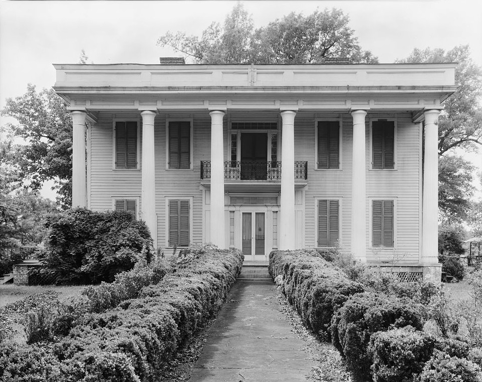 Lawler House (Orangevale), Talladega vic., Talladega County, Alabama. From the Library of Congress' Carnegie Survey of the Architecture of the South.